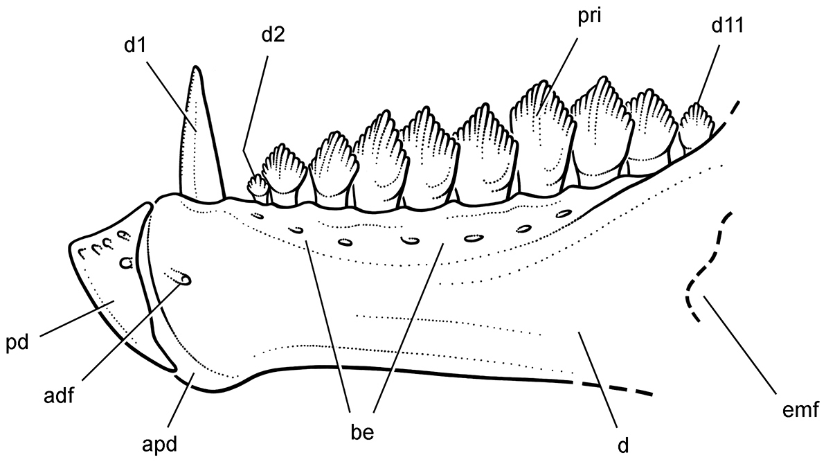 Reconstruction of the lower jaws of Pegomastax africana.